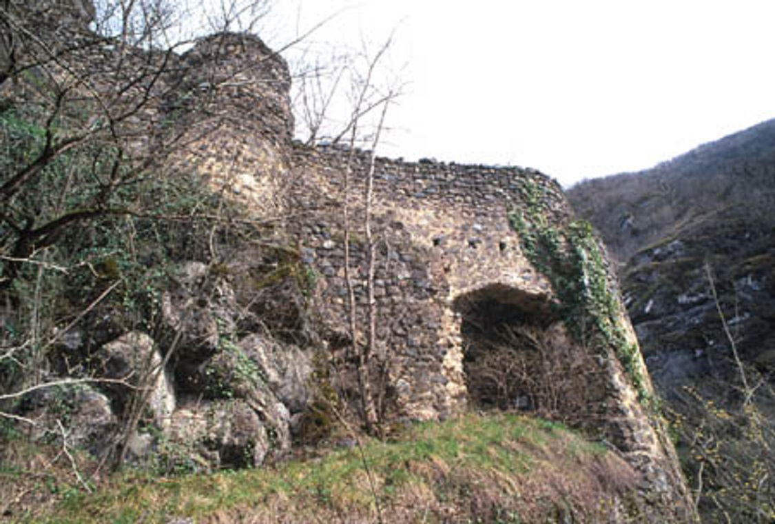 Jraberd Fortress of the Princely House of Atabekians